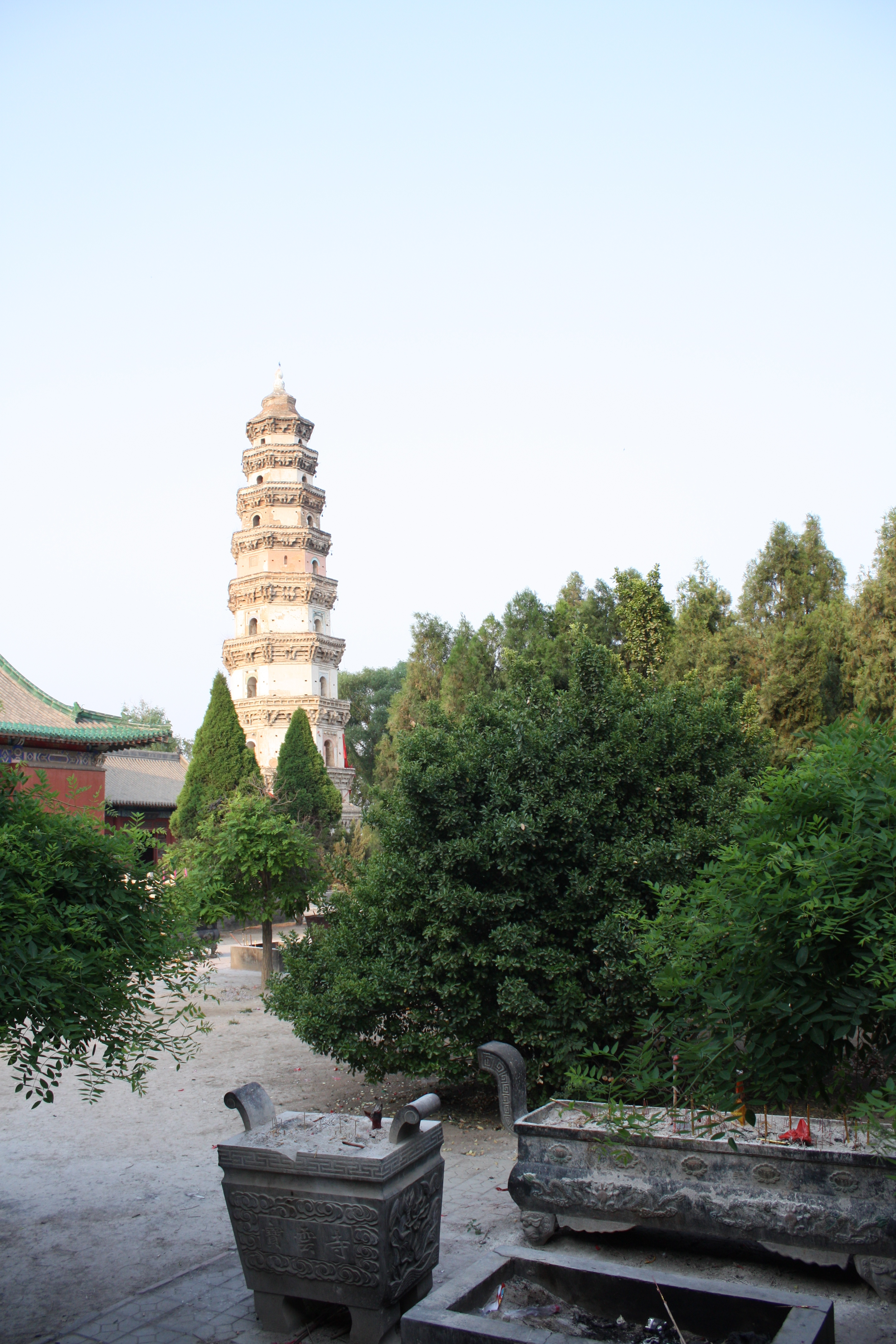 Buddhist Temple outside Hengshui City